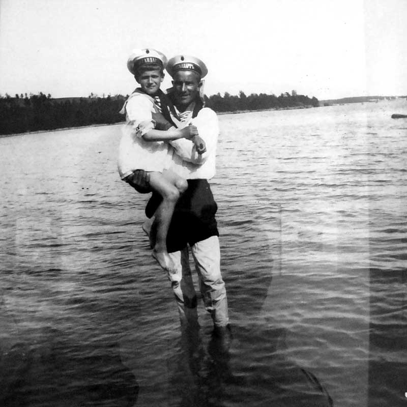 Tsarevich Alexei Nikolaievich of Russia on hands of his servant Mr. Klimenty Nagorny at Finnish skerries, Tuuholmi island.